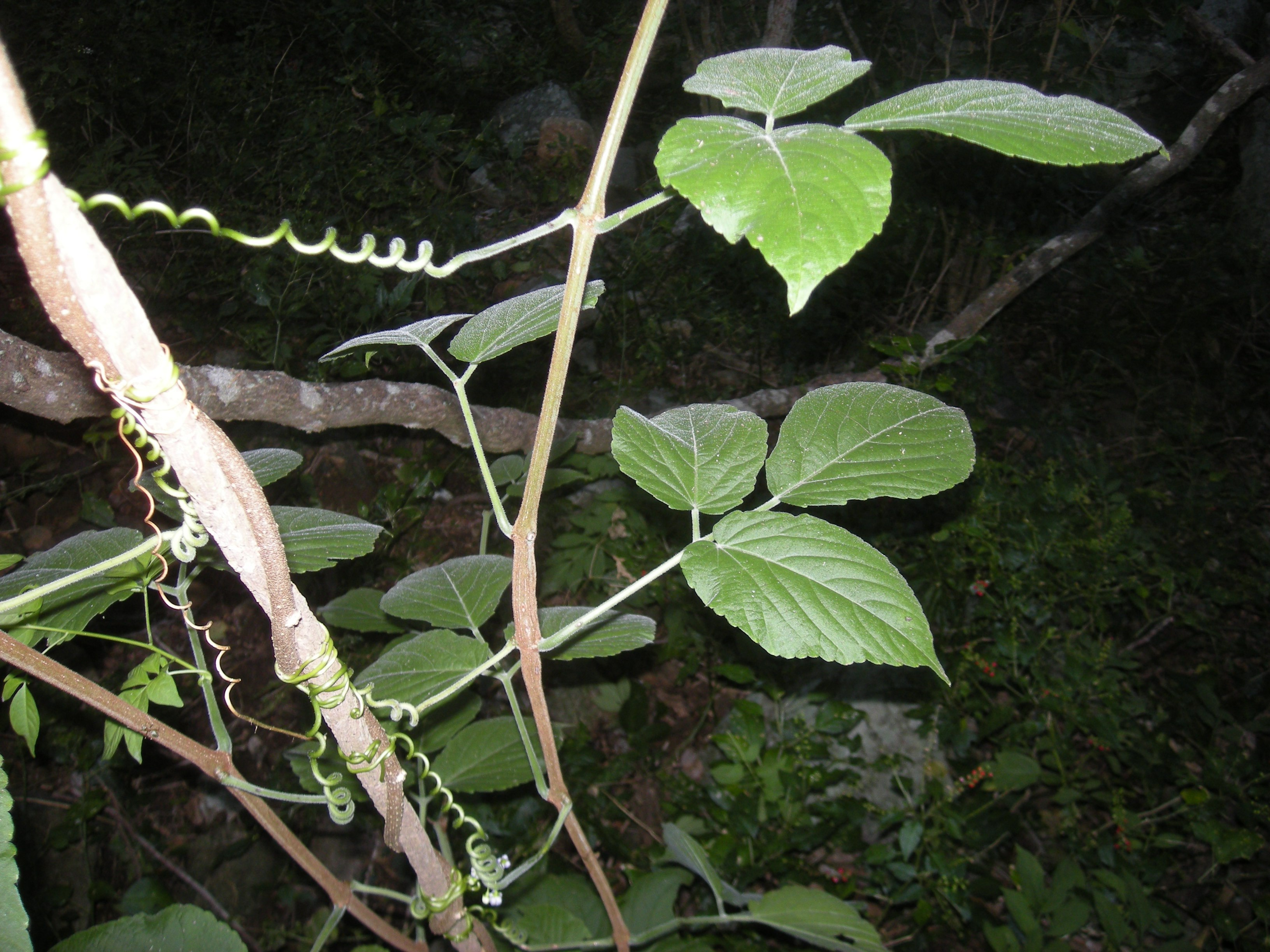 Cayratia acris foliage